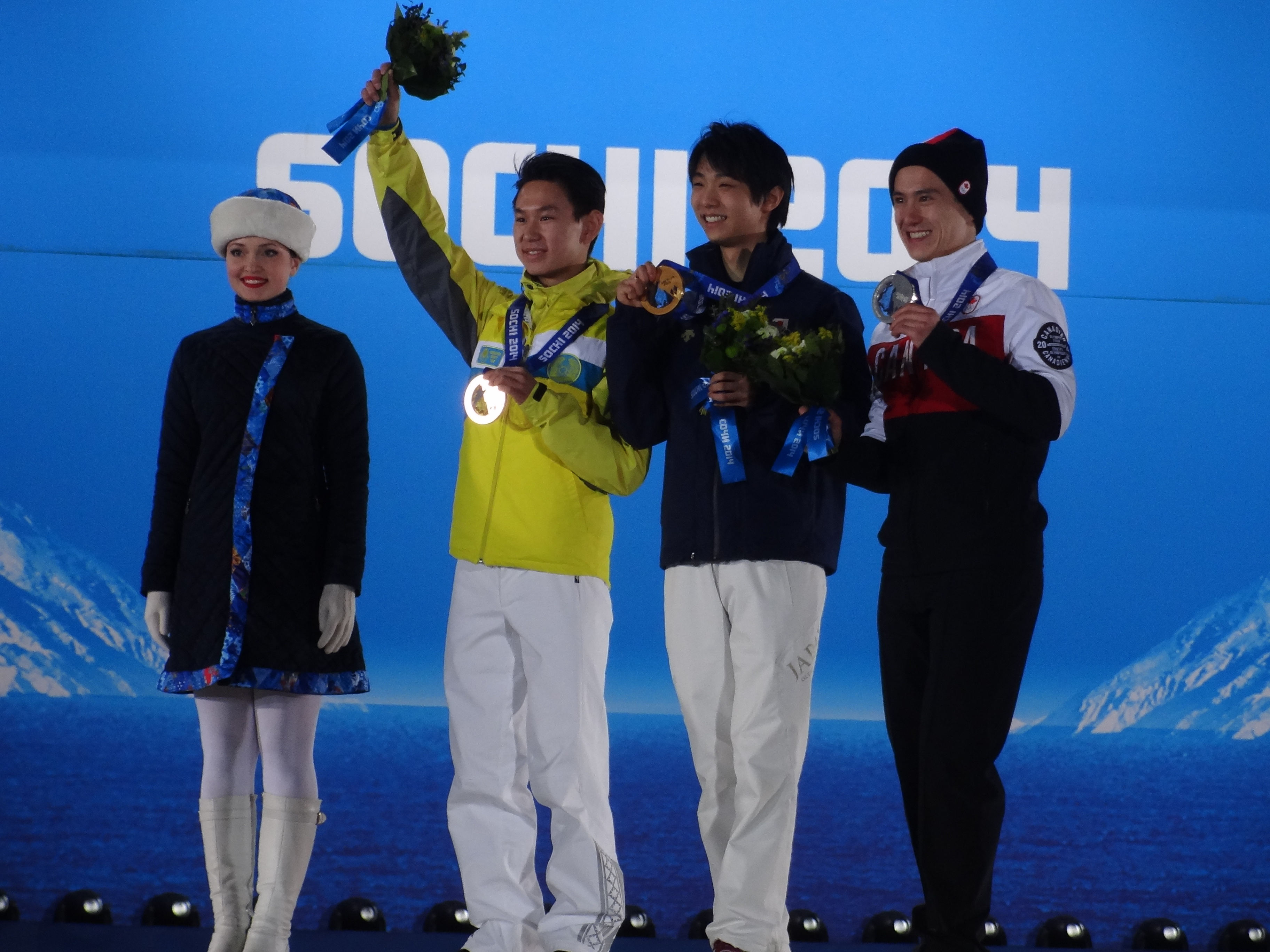 Men's Free Skating - Figure Skating - Sochi 2014. Gold: Yuzuru Hanyu, Japan. Silver: Patrick Chan, Canada. Bronze: Denis Ten, Kazakhstan.